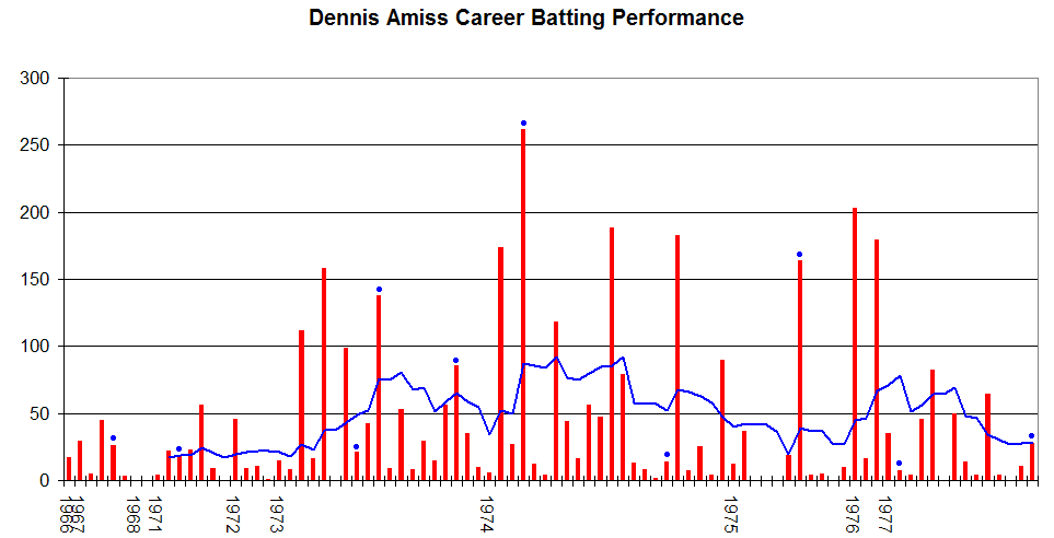 This graph details the Test Match performance of Dennis Amiss. It was created by Raven4x4x. The red bars indicate the player's test match innings, while the blue line shows the average of the ten most recent innings at that point. Note that this average cannot be calculated for the first nine innings. The blue dots indicate innings in which Amiss finished not-out. This graph was generated with Microsoft Excel 2002, using data from Cricinfo and .au.